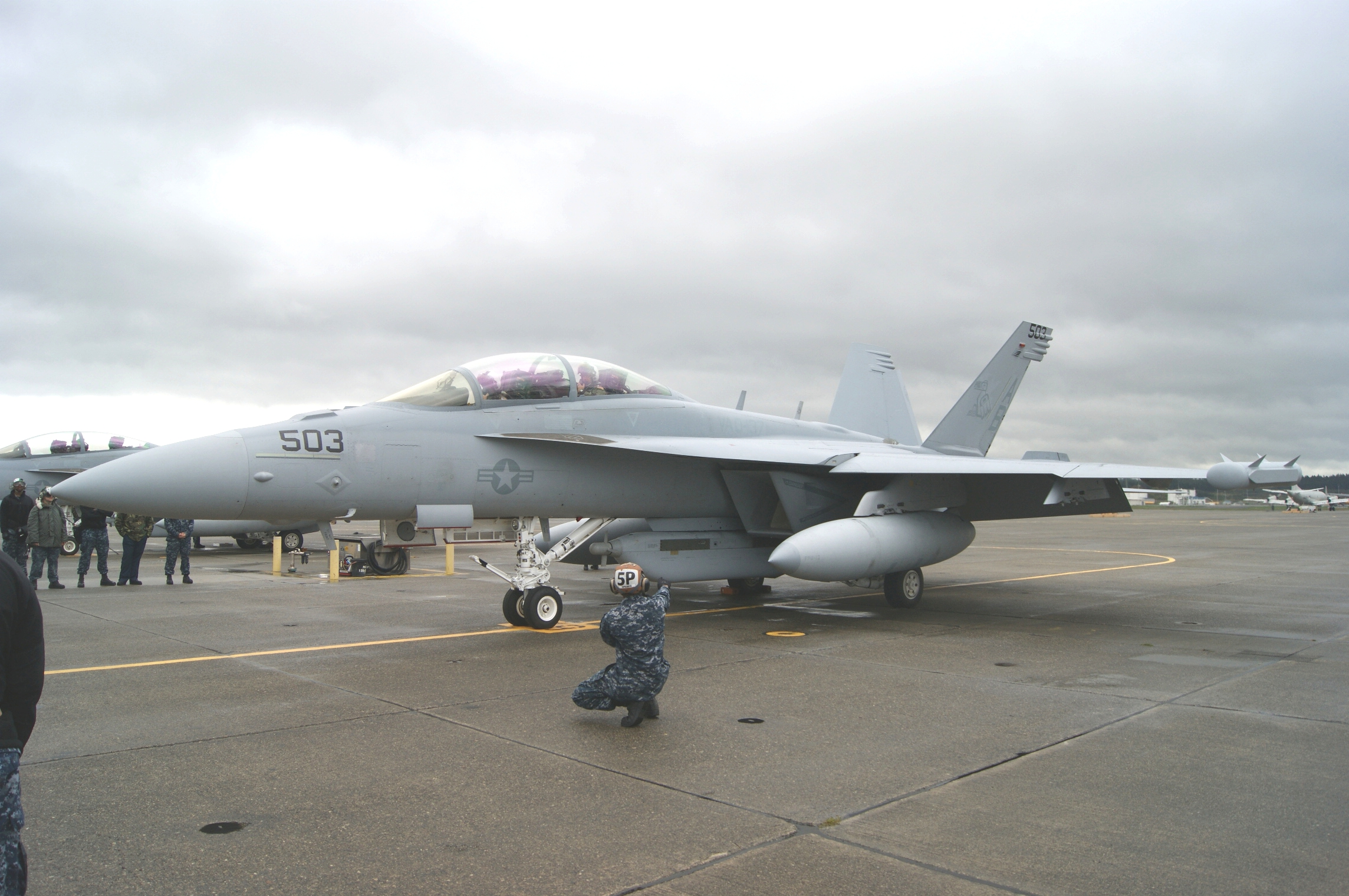 A U.S. Navy Boeing EA-18G Growler of Electronic Attack Squadron 137 (VAQ-137) "Rooks".